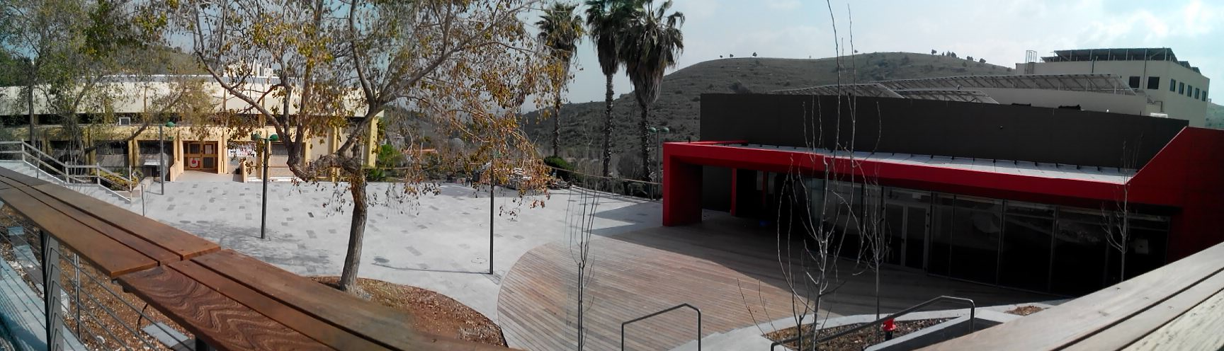 Entrance to the Yokneam City Theater (right) and the Dahari Sports Center (left)